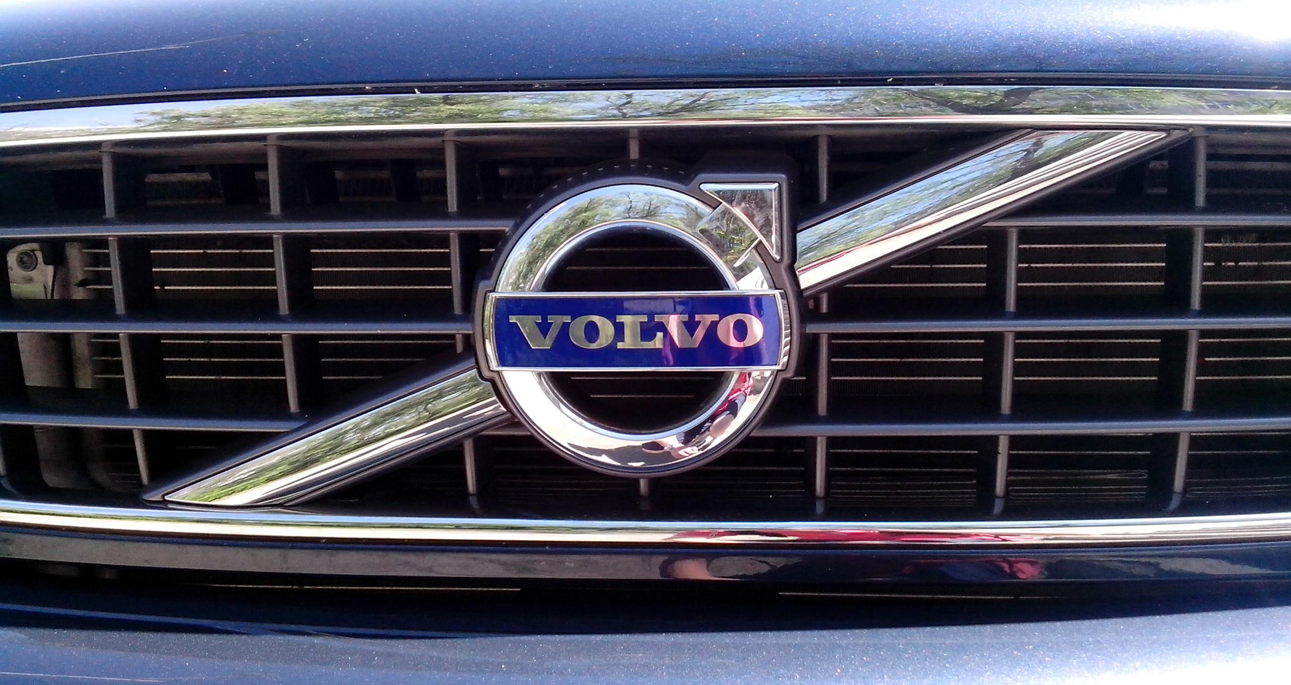 Volvo logo on the grill of an XC90.